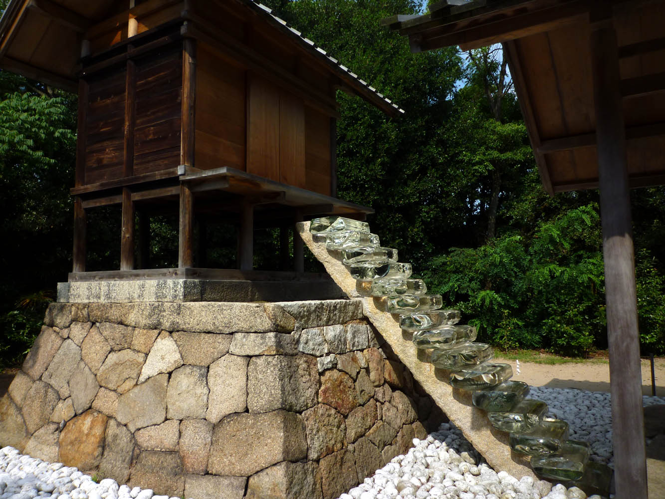 Naoshima Art House Project